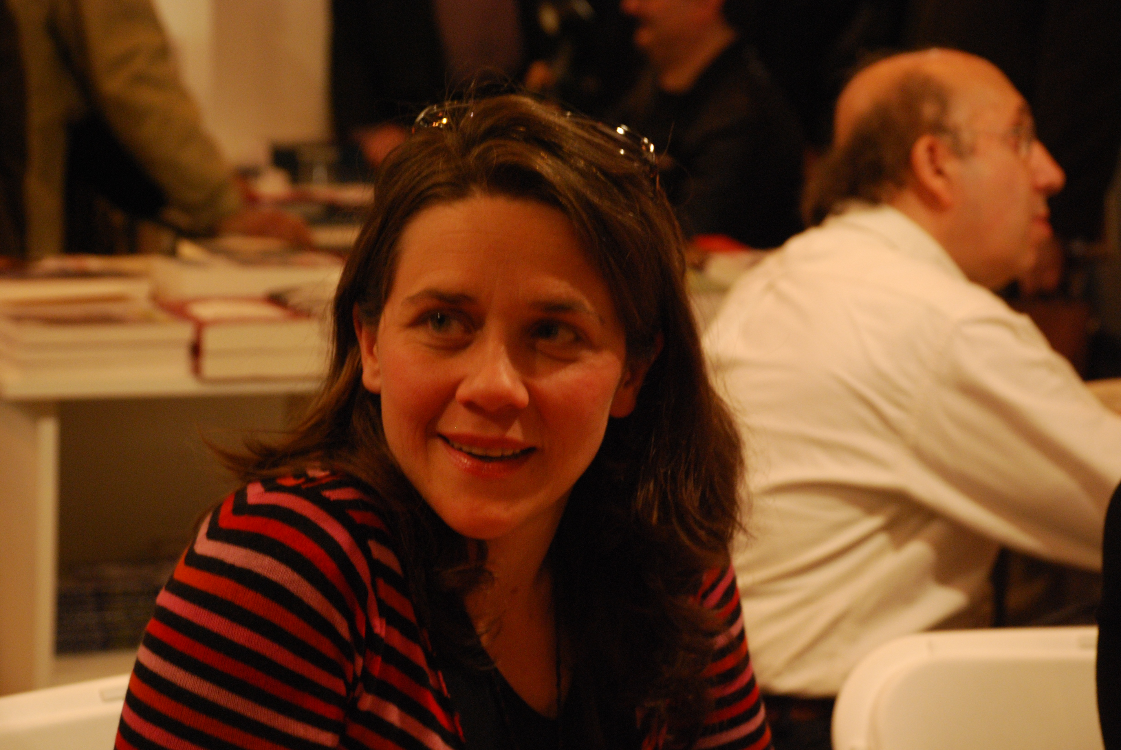 Laure Watrin is signing her book at Le Salon du Livre 2009.